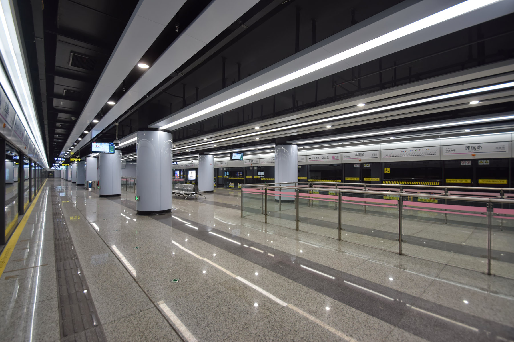 Line 13 Platform of Lianxi Road Station, Shanghai Metro